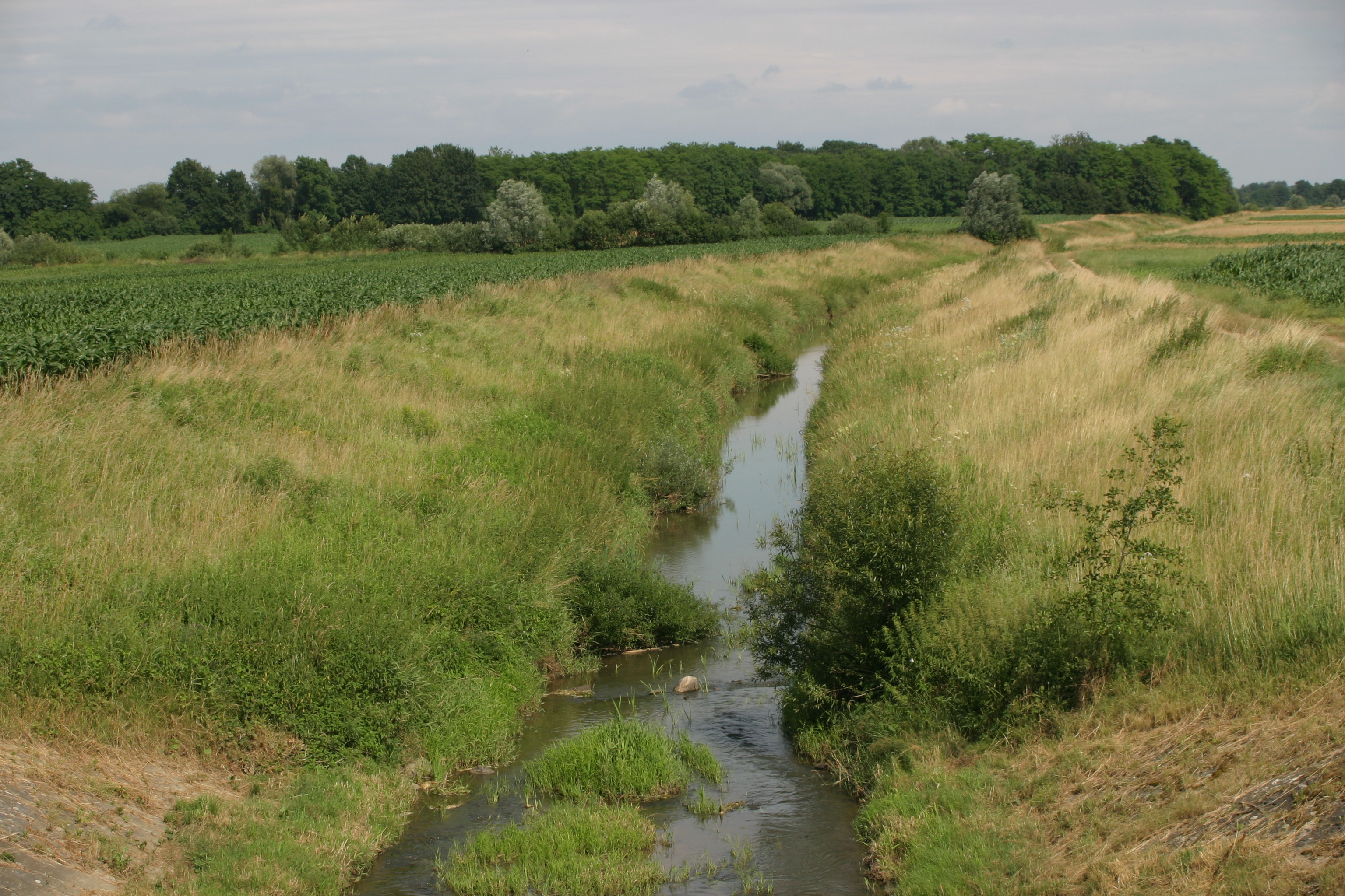 Artificial riverbed of Ledava River near the village of Skakovci